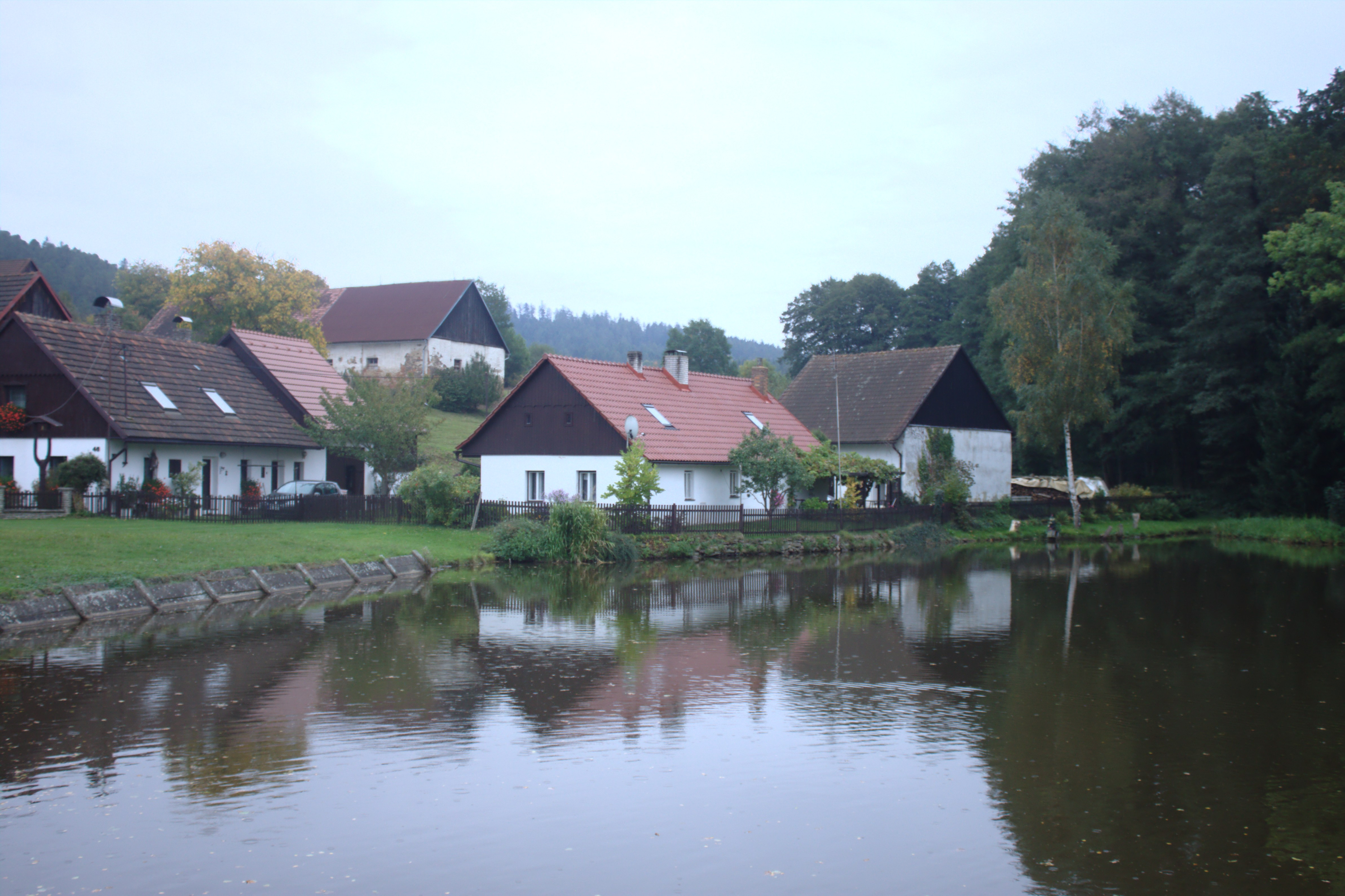 A pond in the village of Pečetín, Plzeň Region, CZ